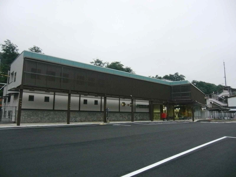 The new station building for Naganohara-Kusatsuguchi Station on the Agatsuma Line, opened on 1 August 2013